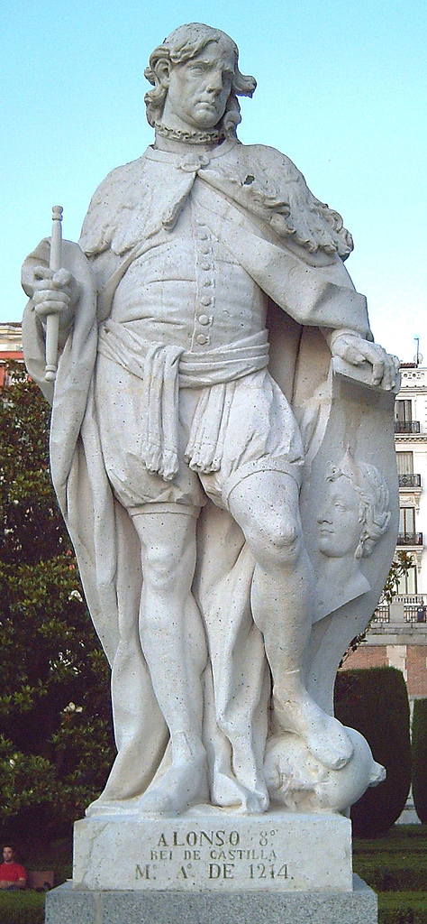 Statue of Alfonso VIII of Castile (1155–1214) at the Sabatini Gardens in Madrid (Spain). Sculpted in white stone by Juan de Villanueva Barbales (1681–1765) between 1750 and 1753.